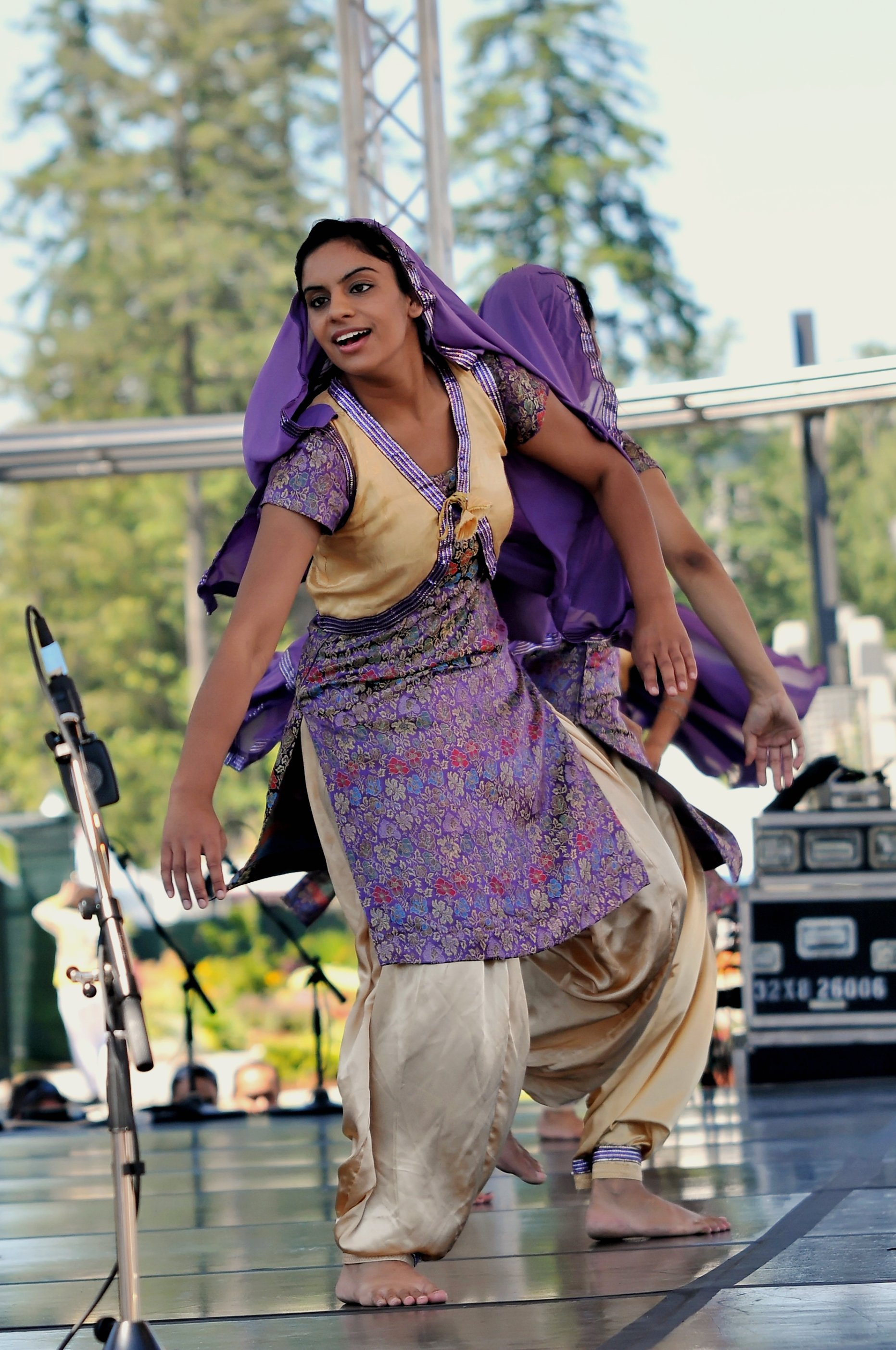 Bhangra dancers. Surrey Folk Bhangra Club, Surrey Fusion Festival 2010.